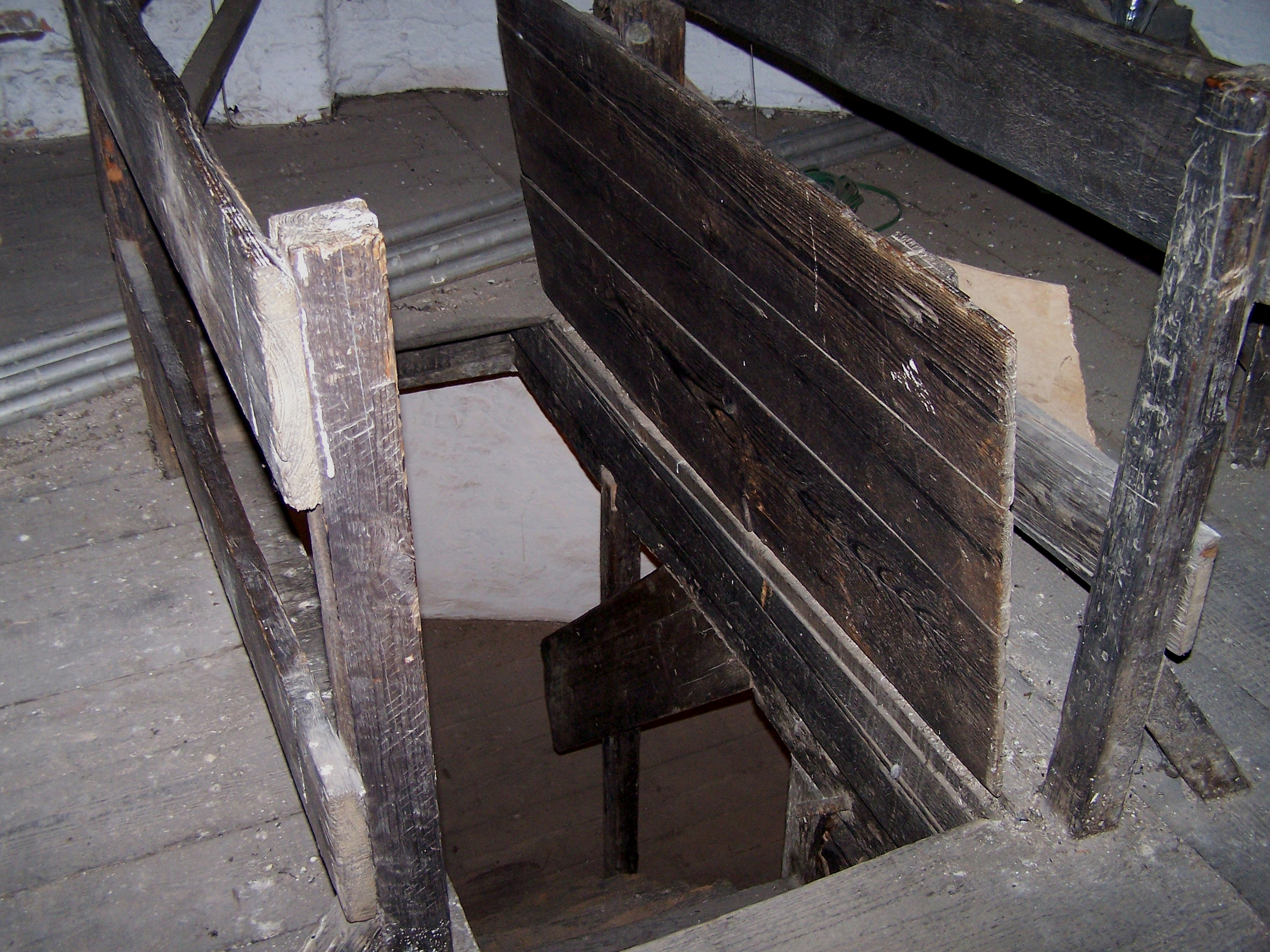 Trap door from 1428 in a false floor of the Eschenheimer Turm in Frankfurt am Main-Innenstadt, situation of 2009